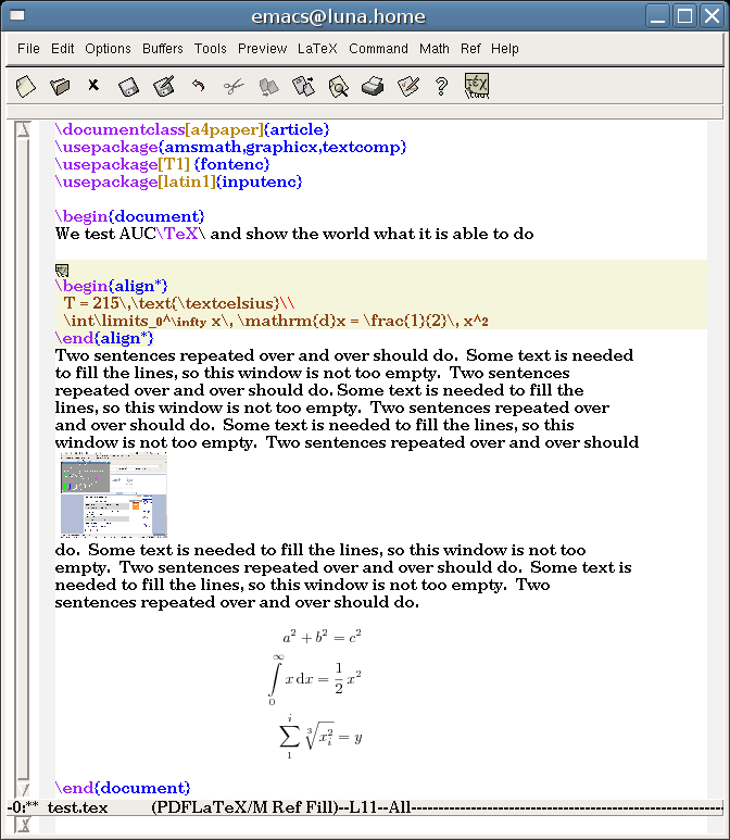 AUCTeX showing its preview capabilities